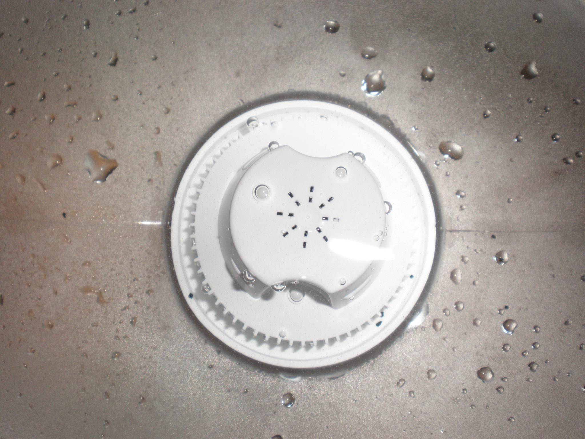 A Brita water filter in use (photographed through the water in the pitcher).